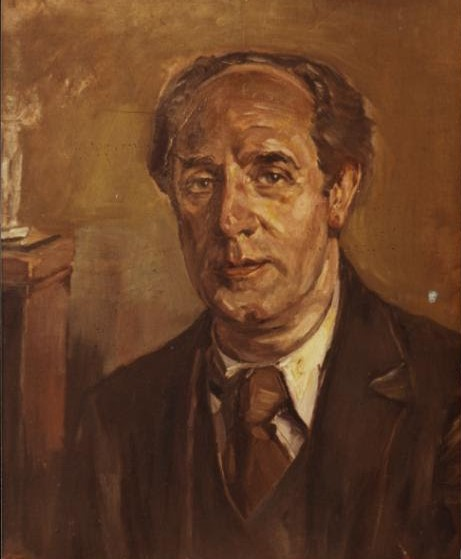 Kurt Schwitters: Portrait Paul Hamann in Hutchinson Internment Camp, 1941